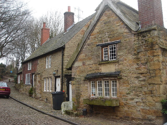 Samuel Crompton's birthplace, Firwood Fold Samuel Crompton invented the Spinning Mule. He was born in this cottage (the thatched one) on 3rd December 1753.